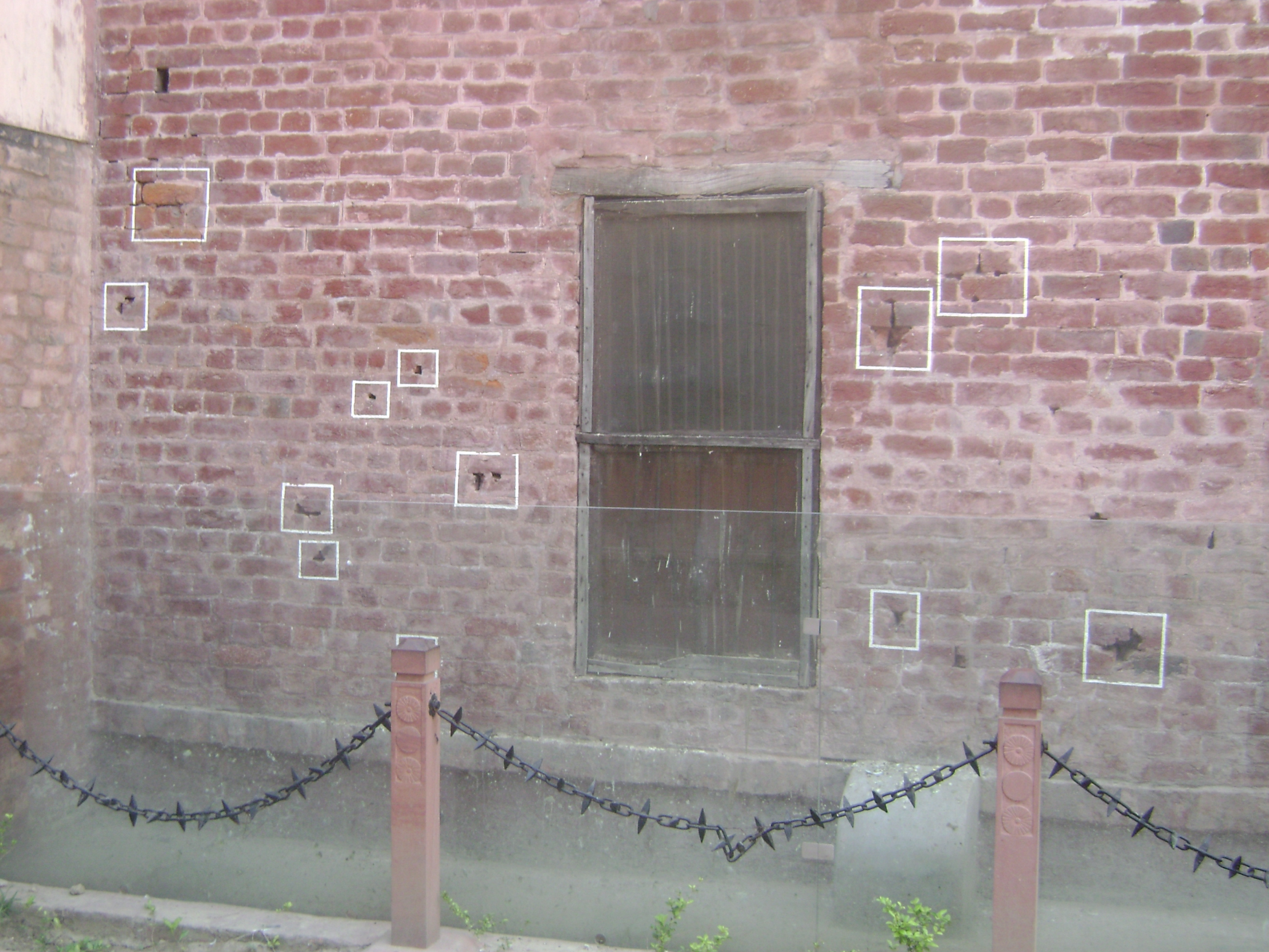 History of India